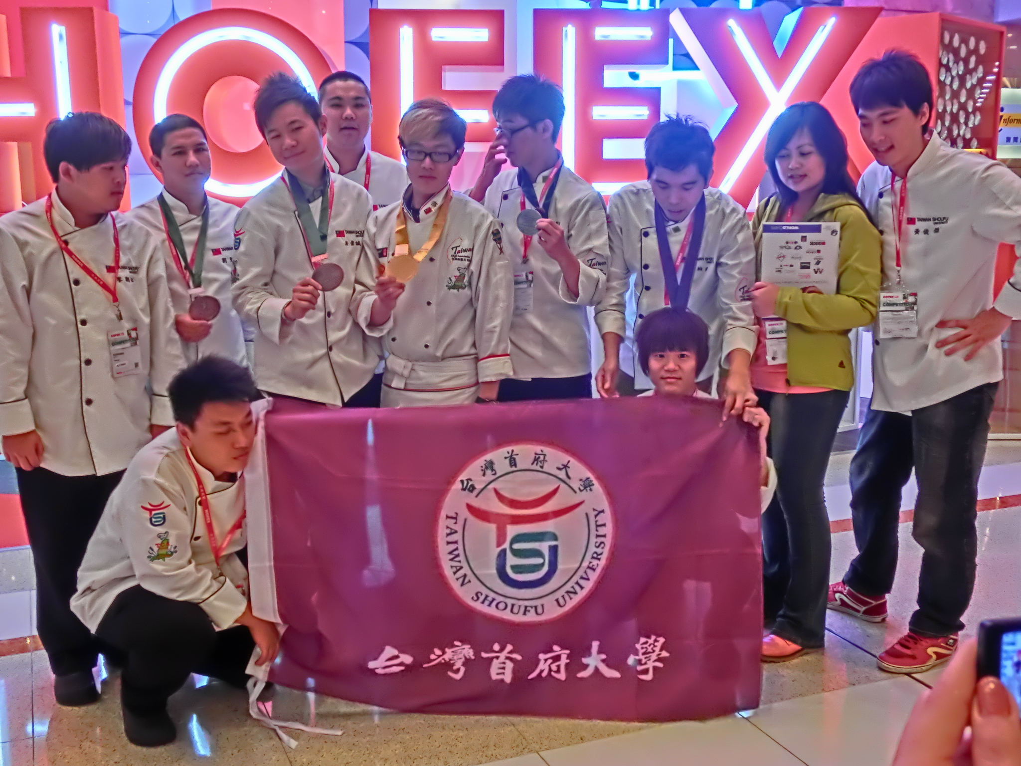 Group photo of Taiwan Shoufu University at HOFEX 2013.